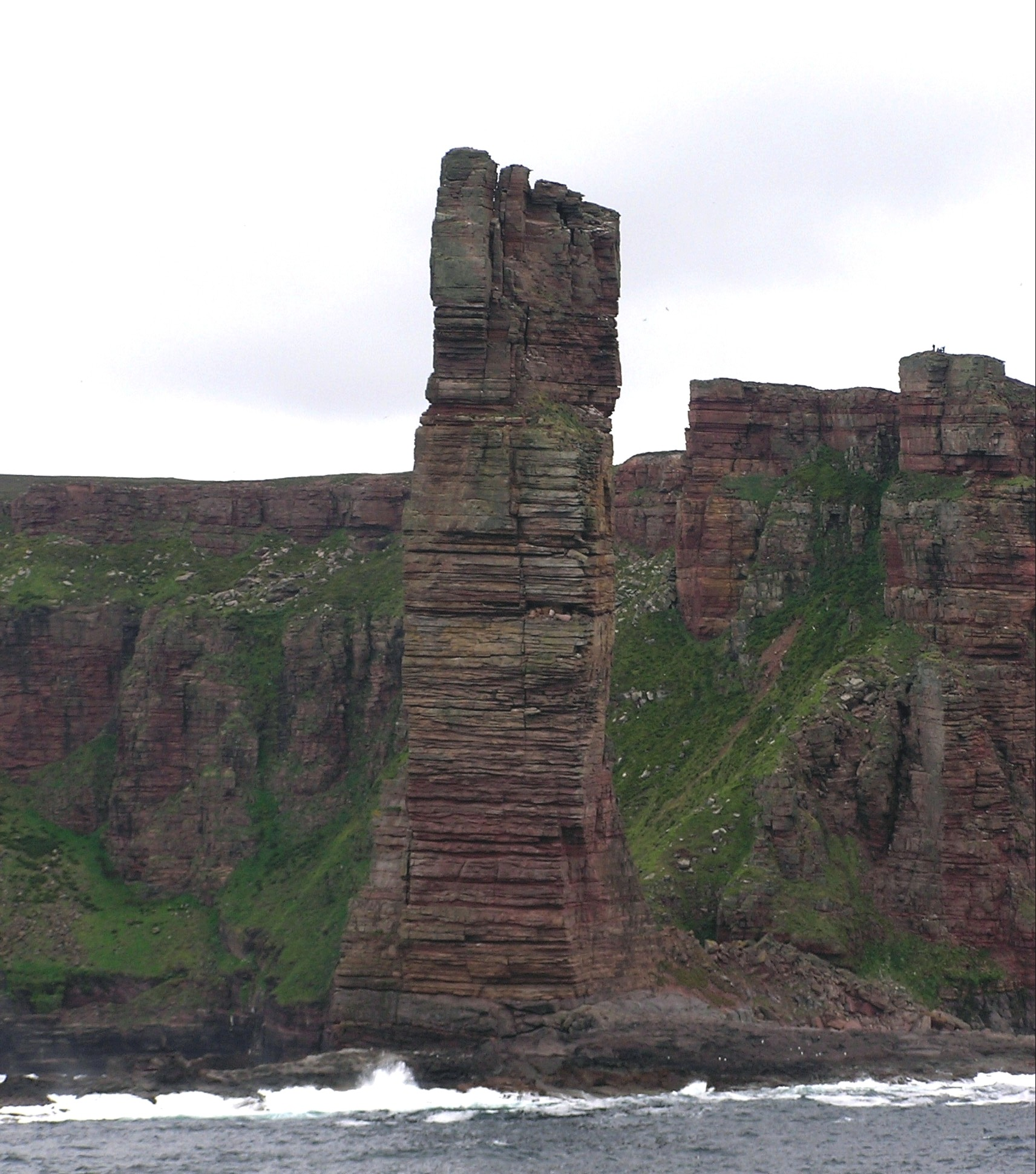 The Old Man of Hoy, is a stack located on the western coast of the island of Hoy. Viewed from the MV Hamnavoe whilst enroute to Stromness, Orkney from Scrabster on the Scottish mainland. You can compare the height of 449 feet (137 m) to the group of people on the cliff to the right.